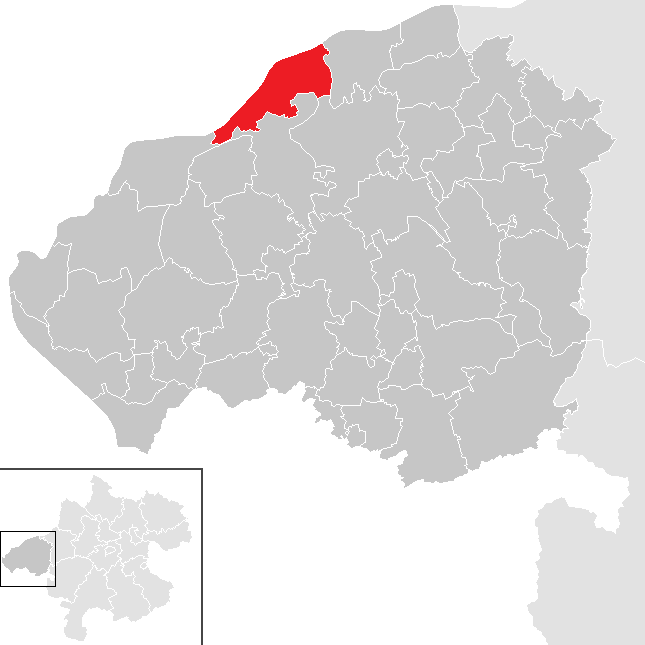 district Braunau am Inn